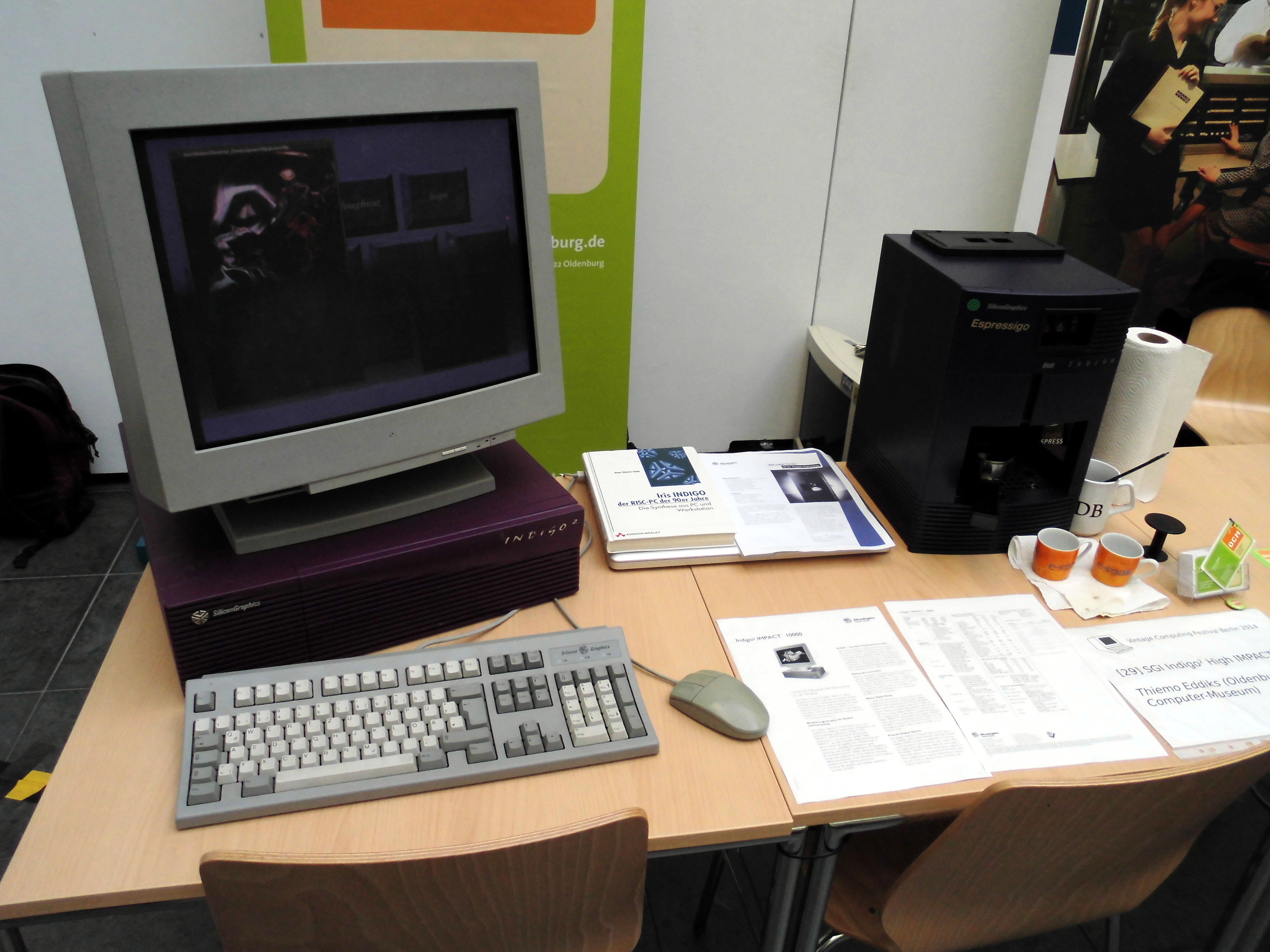 SGI Indigo² High Impact workstation at the Vintage Computing Festival 2014 in Berlin. Next to it is the SGI Espressigo espresso machine, built by SGI as a marketing gag. These two machines were exhibits from the Oldenburg Computer Museum.